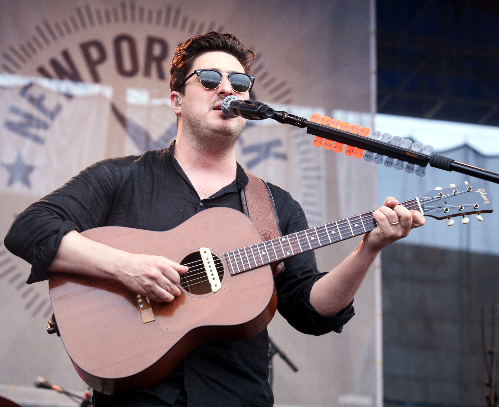 Marcus Mumford of Mumford & Sons performing a surprise set at Newport Folk Festival, July 28, 2018 at Fort Adams State Park in Rhode Island. Photo by Sachyn Mital.